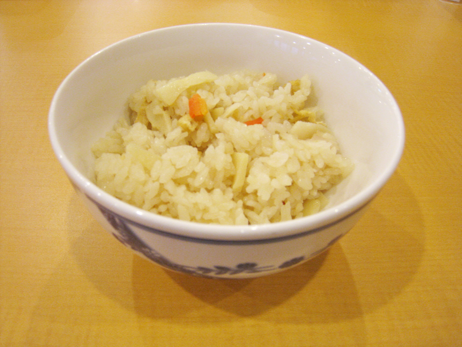 Takenoko gohan (筍御飯), one of the takikomi gohan (炊き込み御飯)